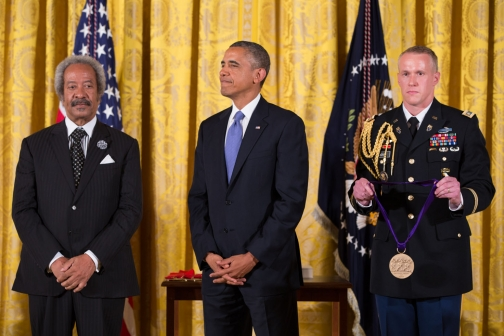 Allen Toussaint (left) receiving the Medal of Honor for the Arts from President Obama July 10, 2013 at the White House. (Unidentified officer stands holding the medal at right.)